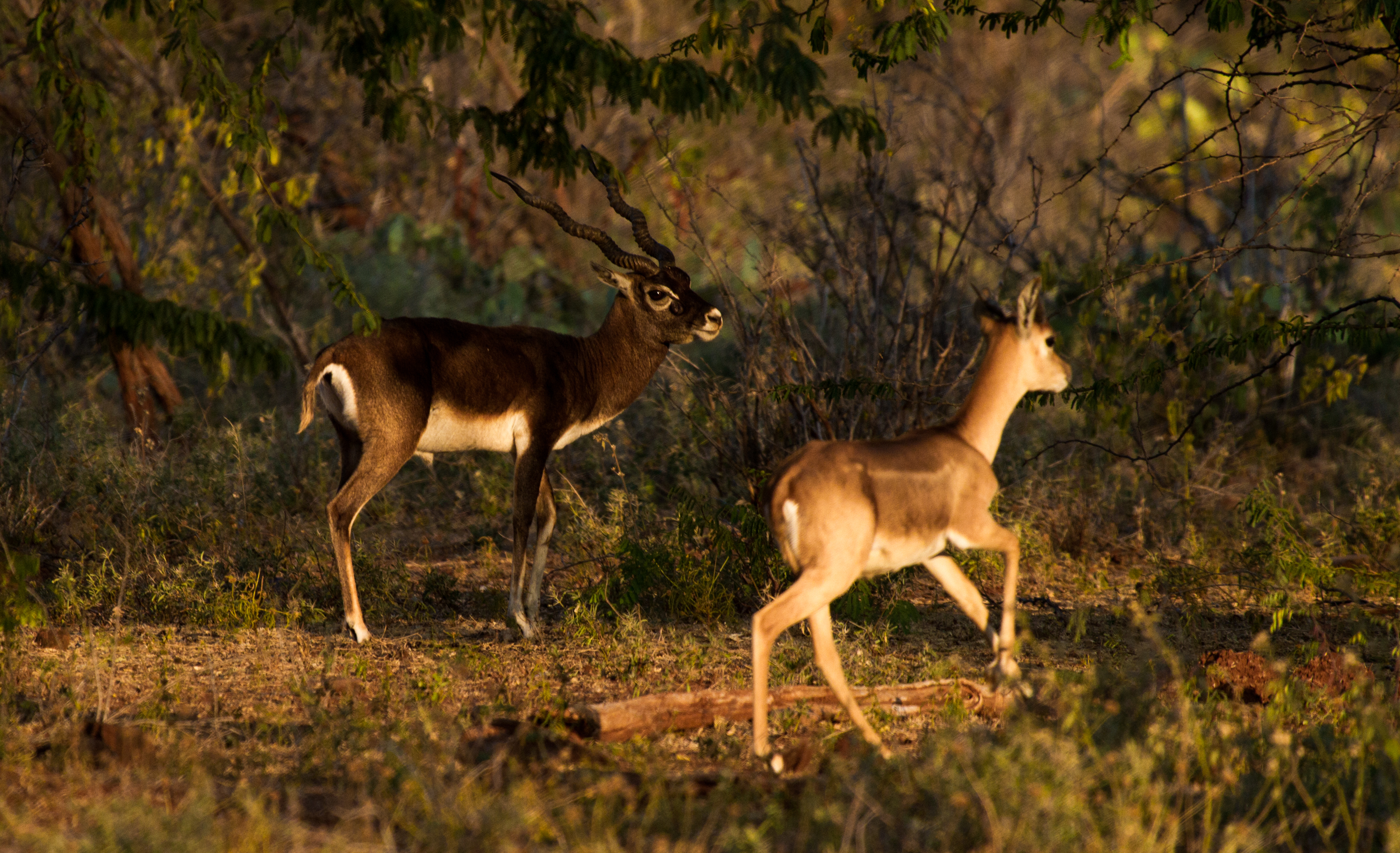 blackbuck (Antilope cervicapra)